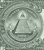 Novus Ordo Seculorum (1 US$) Illuminati conspiracy in the U.S.A.